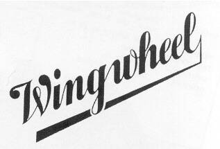 Logo of Wingwheel, a Dutch brand of motorized bicycles from circa 1950.